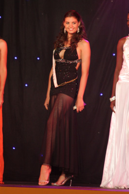 Miss Argentina 2008 Agustina Quinteros during Miss World 08